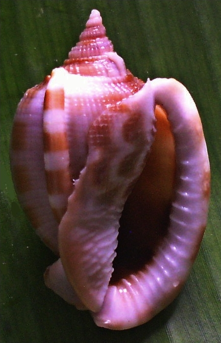 Photo of apertural view of the shell of Checkerboard Bonnet Phalium areola.